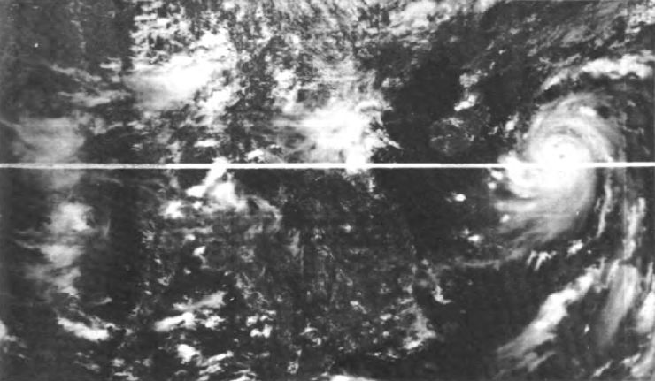 Typhoon Marge is positioned by satellite 210mi south of Hong Kong on September 13,at 0513,with winds of 75kt,as she heads on a westerly course (DMSP VHR data)